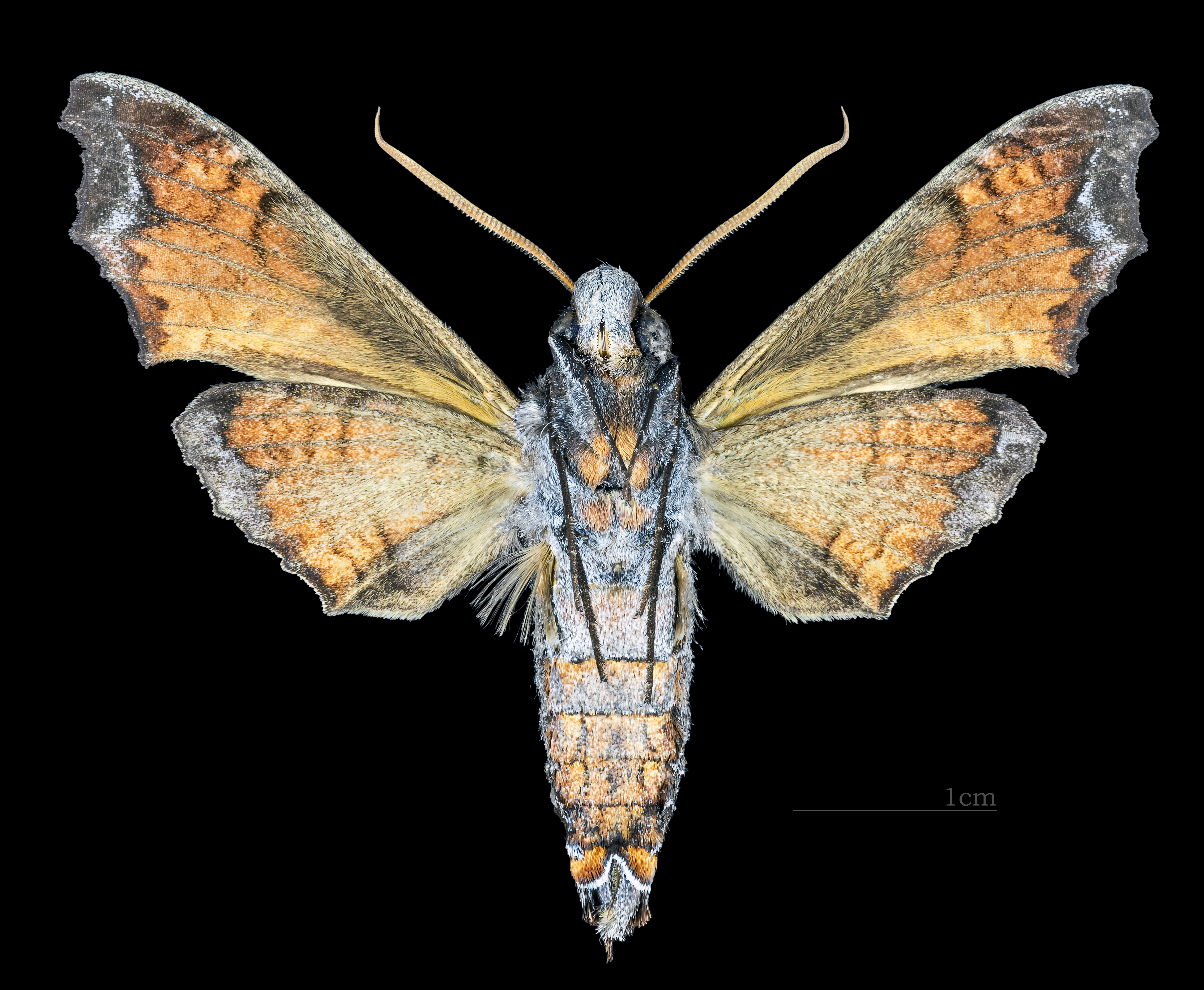 Nyceryx eximia - △ Ventral side Collection of the Mathematician Laurent Schwartz